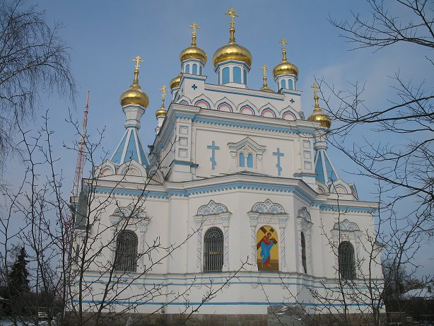 (Eastern) Orthodox church in the Daugavpils downtown, in southwestern Latvia.